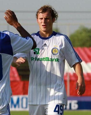 Roman Zozulya